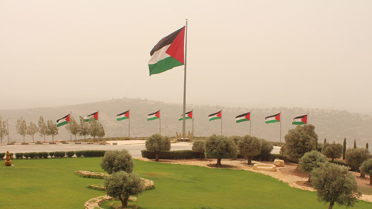 Palestinian flags flying by the Rawabi visitor center in the West Bank.